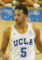 Kyle Anderson of UCLA Bruins.